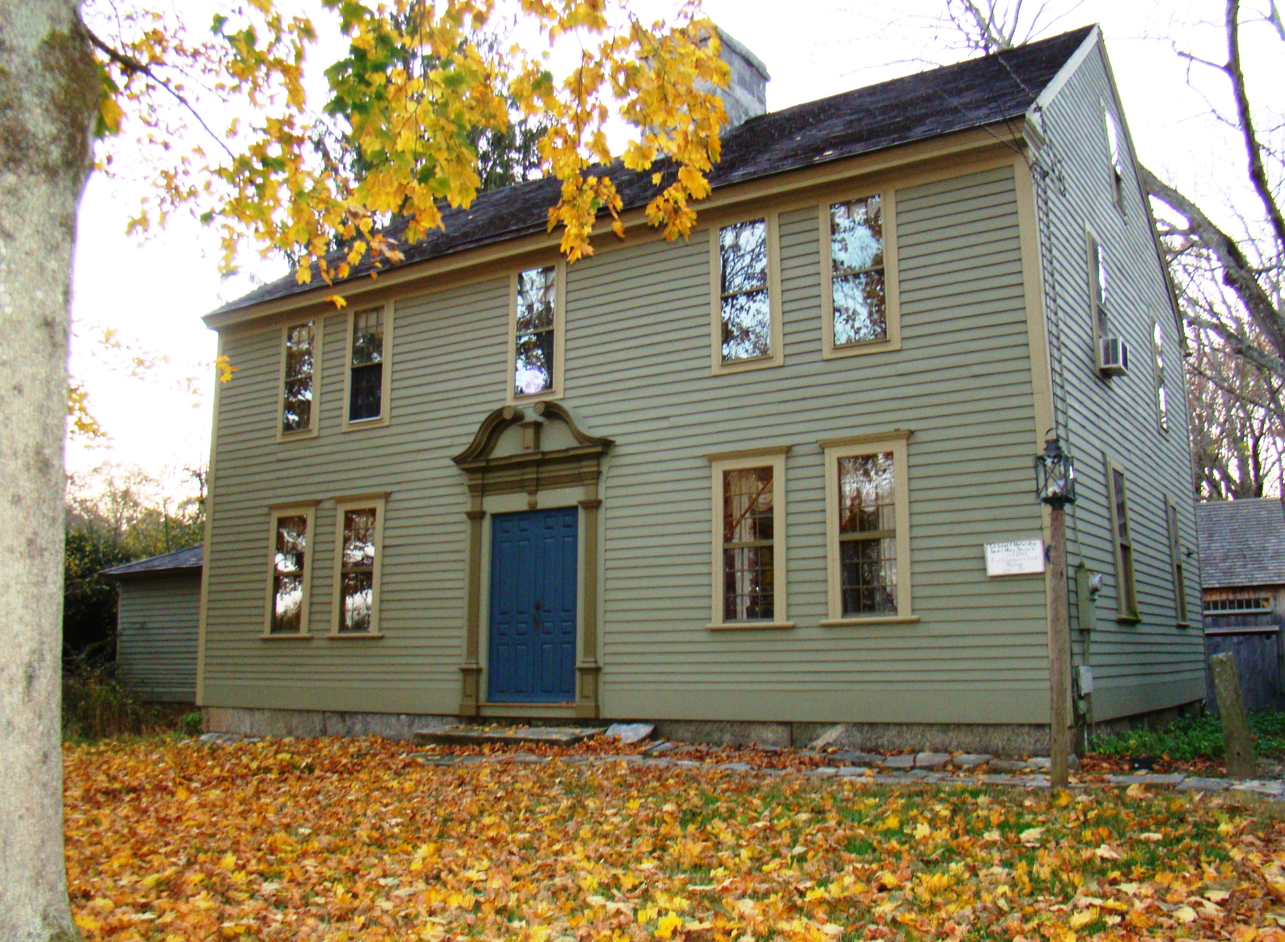 Listed on NHPS on April 10, 1998